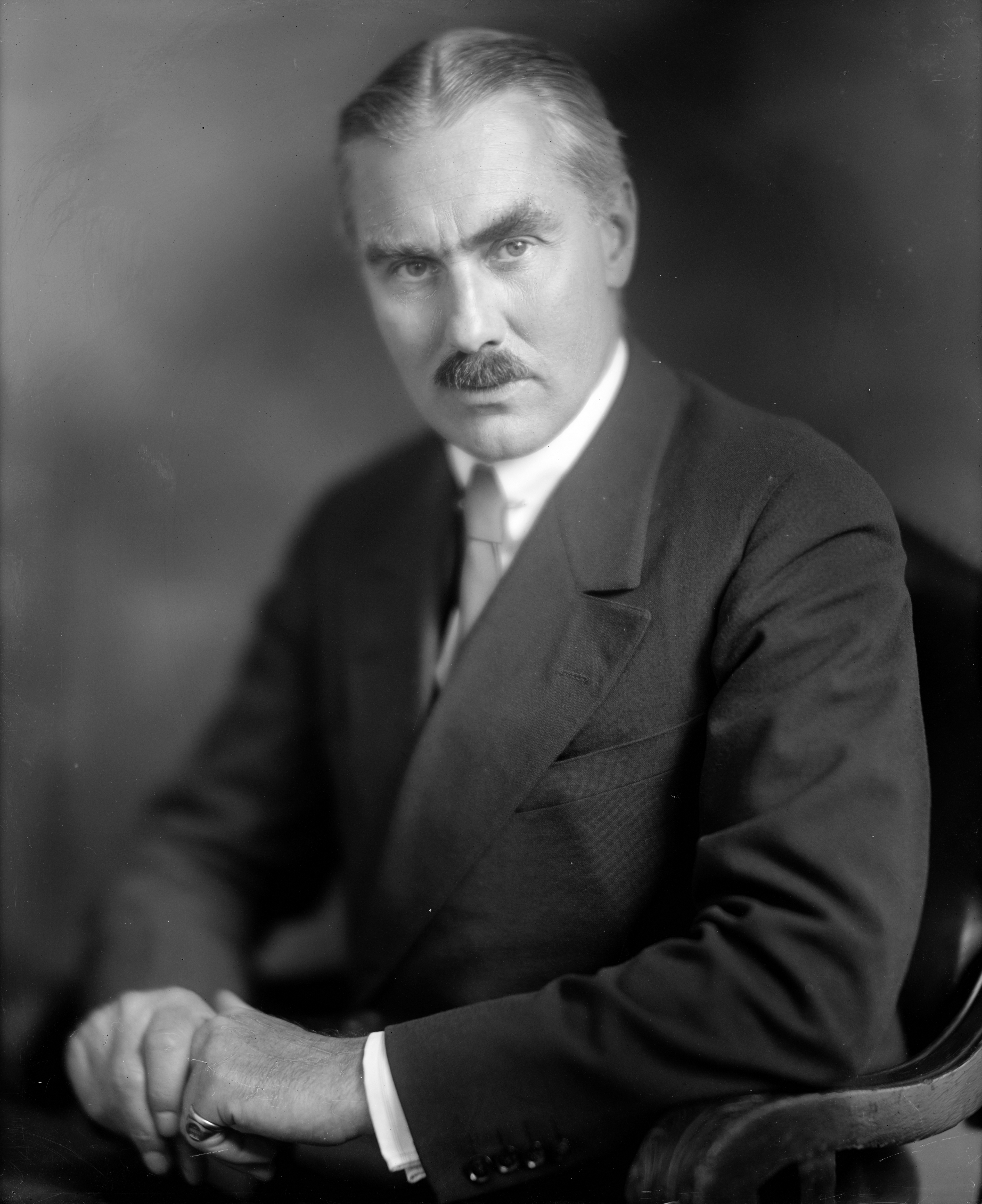 United States Ambassador to Japan Joseph C. Grew.